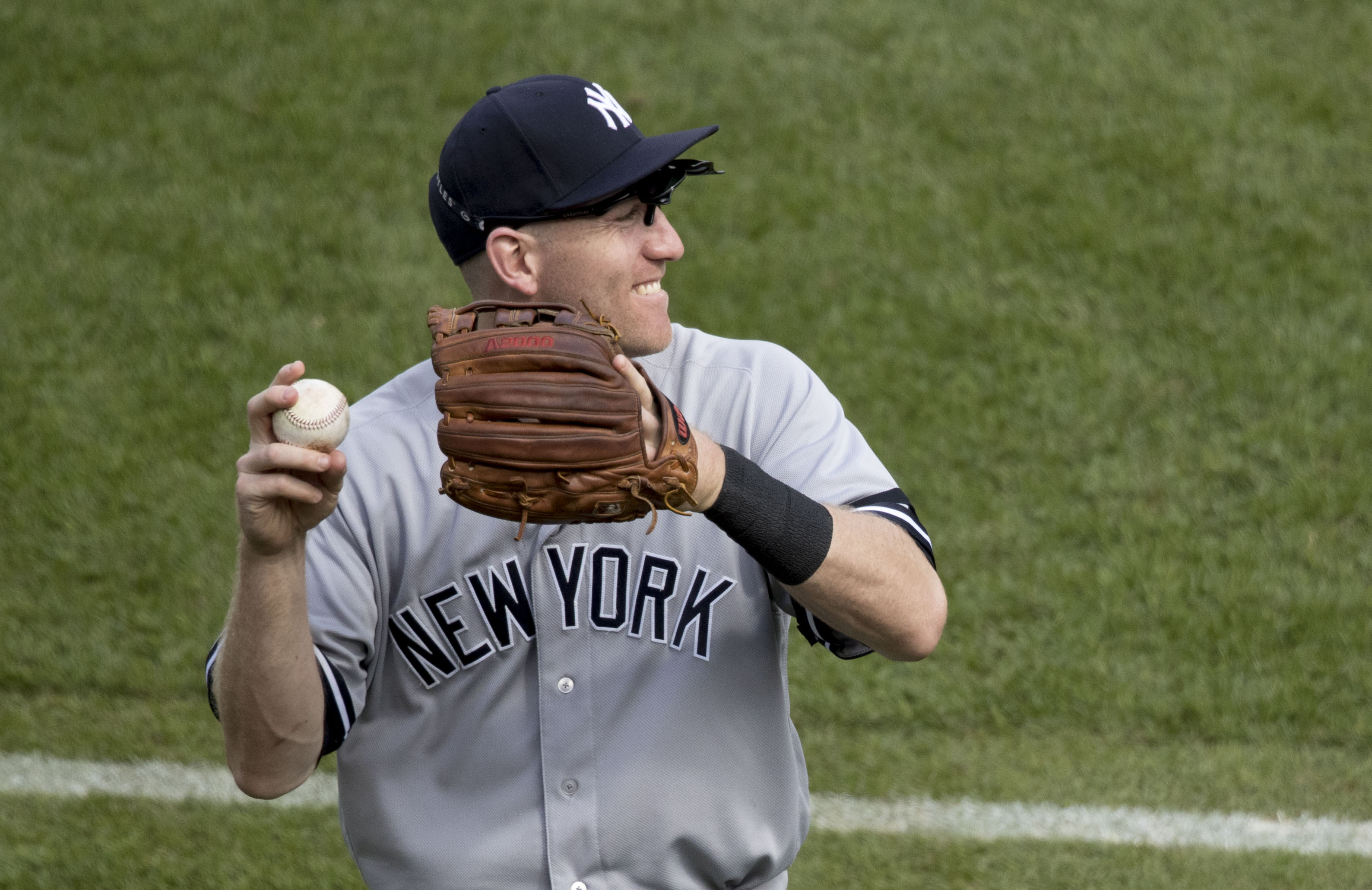 Todd Frazier of the New York Yankees in 2017.